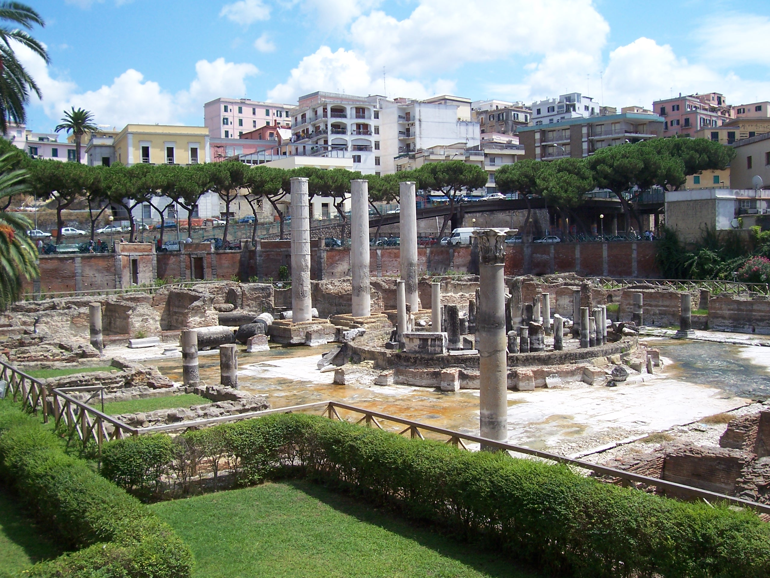 Serapeum, roman temple dedicated to the god Serapis, Pozzuoli, Italy.